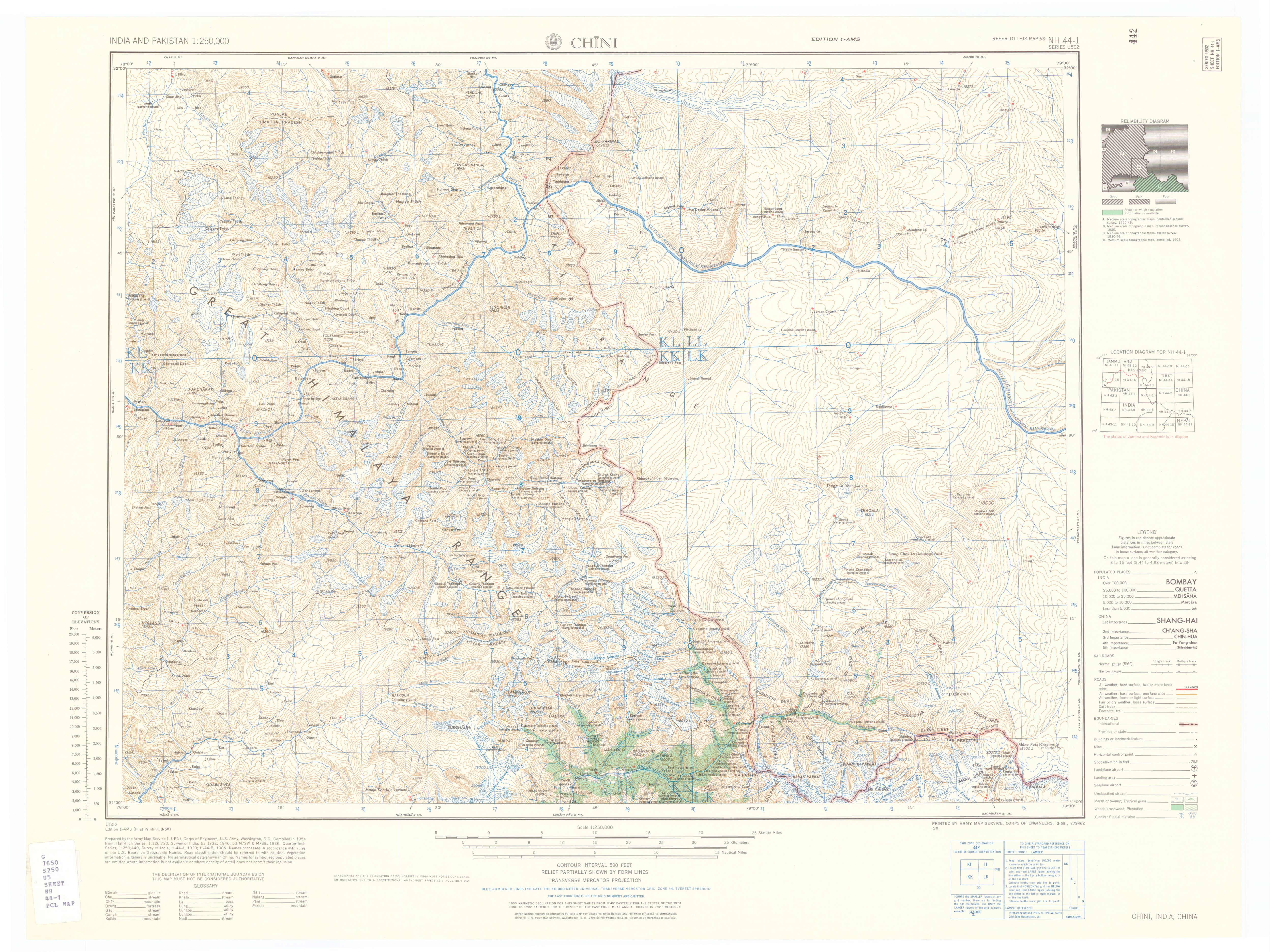 NH 44-1 Chini. Tile of the Map India and Pakistan 1:250,000. Series U502, U.S. Army Map Service, 1955